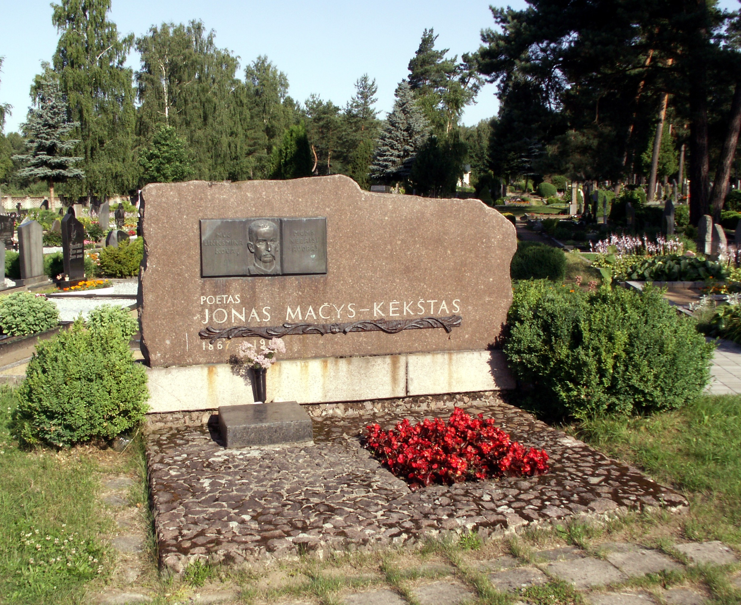 Thomb of writer Jonas Mačys Kėkštas, Prienai, Lithuania